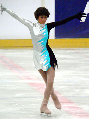 Maria Balaba during her short program at the 2006 Junior Grand Prix event in The Hague, Netherlands